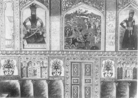 A detail of wall decoration of Erivan Sardar Palace (1928). Artist, V. Moshkov